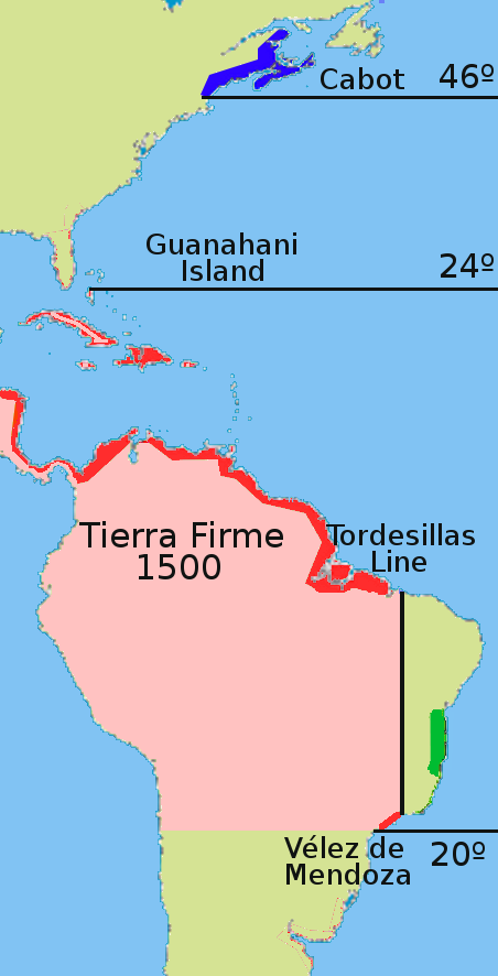 Crown of-Castile all territories